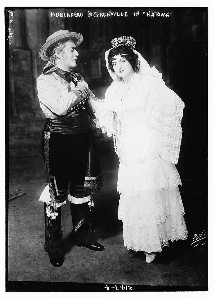 Title: Hurberdeau and Grenville in "Natoma" Abstract/medium: 1 negative : glass ; 5 x 7 in. or smaller.